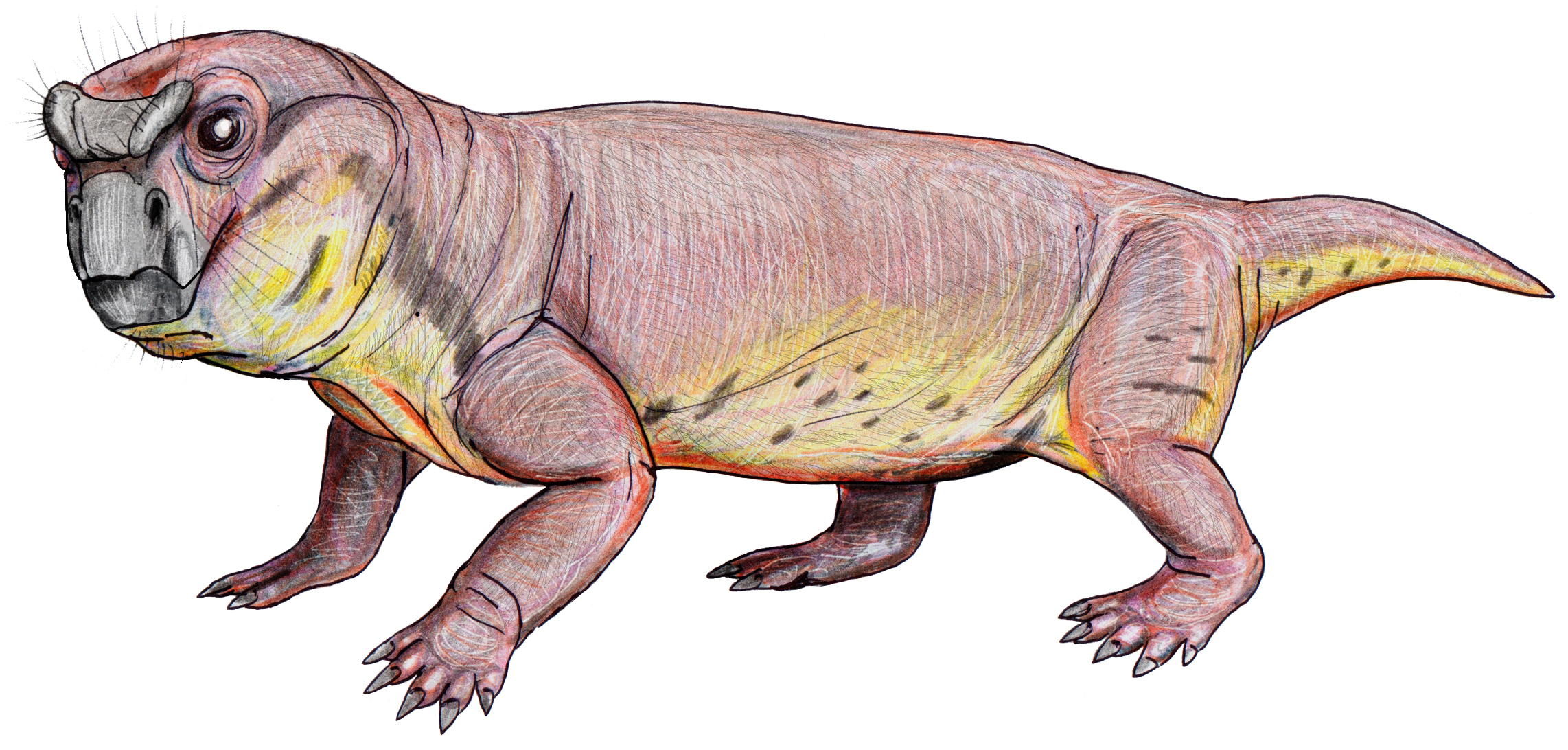 Geikia elginensis, dicynodont from Late Permian of Elgin in Scotland